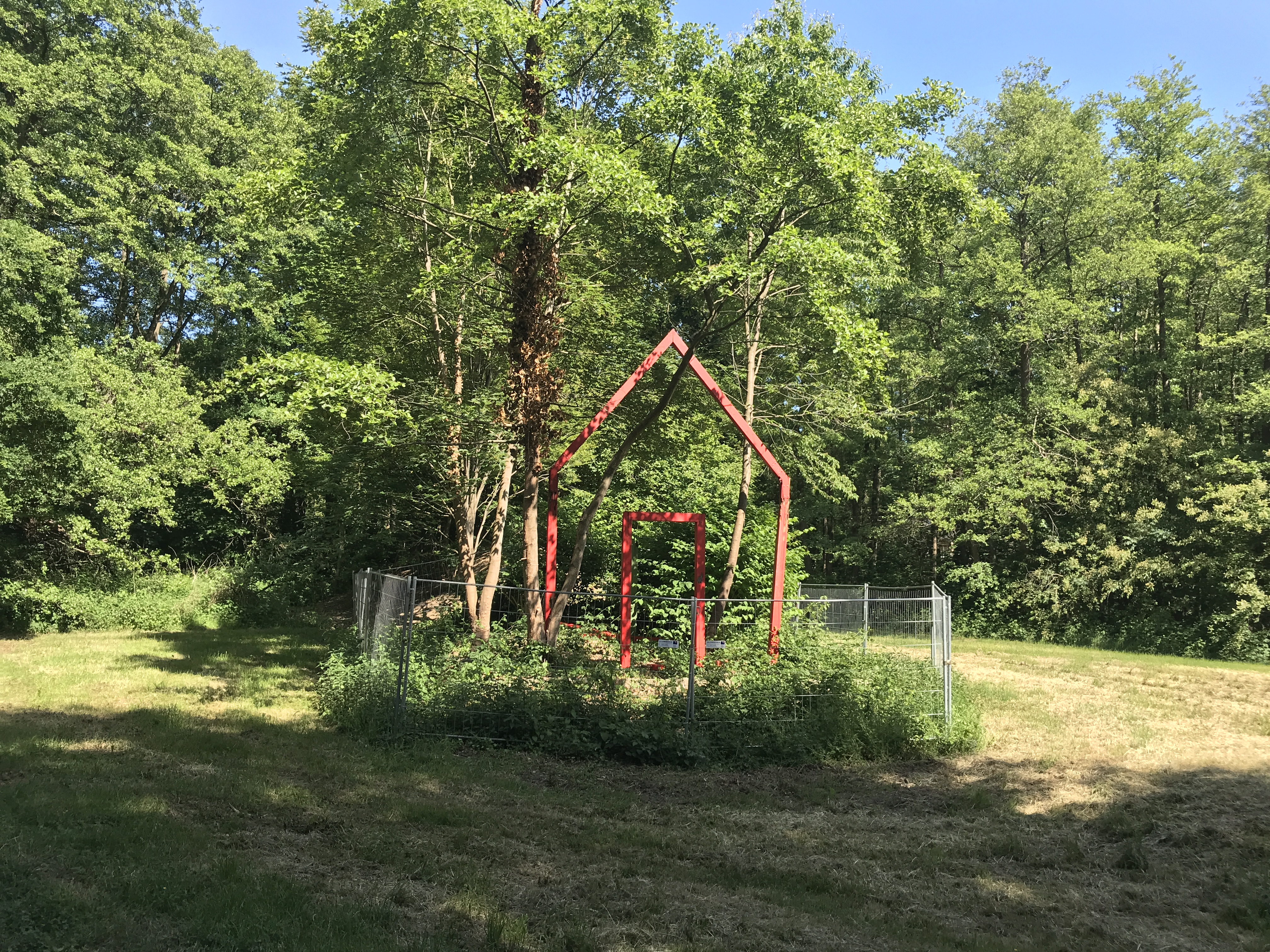 Monument former house in the park to Haus Broich.